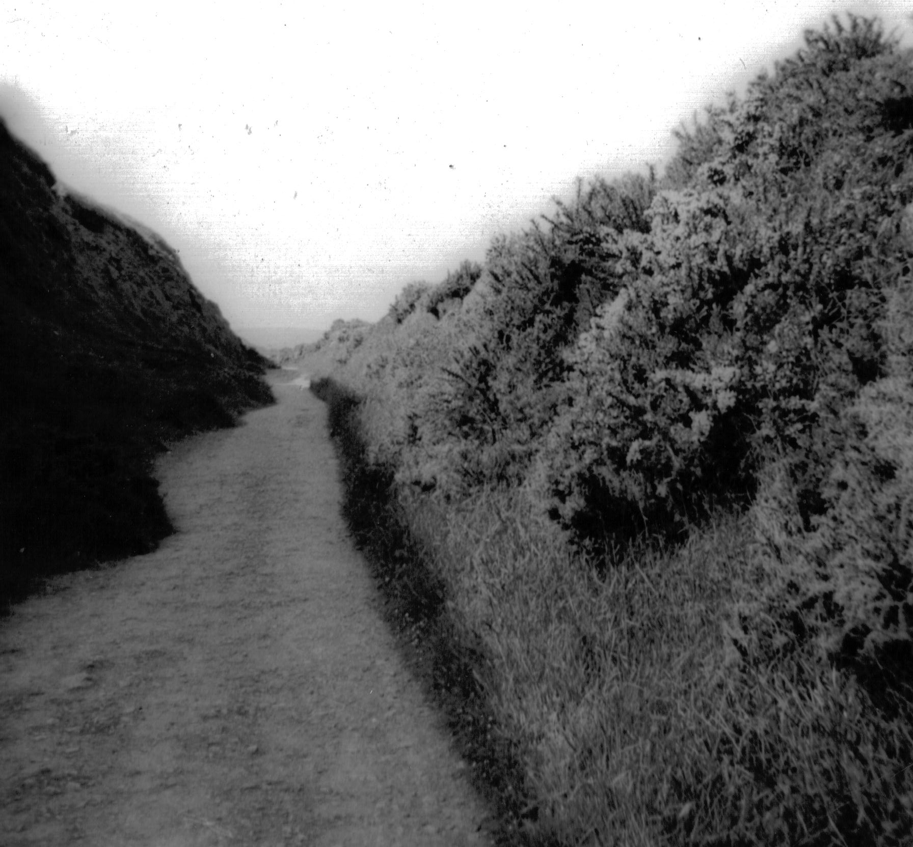 The Cornborough Cliffs railway cutting, Devon, England. Now a walkway.